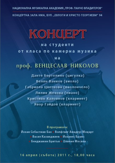 Concert-Program of Ventseslav Nikolov